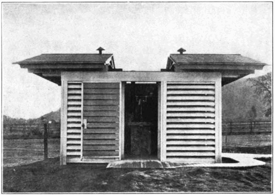 International latitude observatory Ukiah California